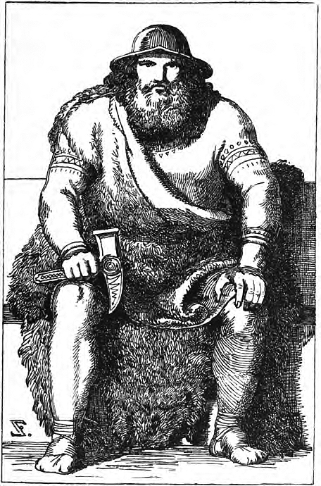 Thor as depicted (1907) by Lorenz Frølich.